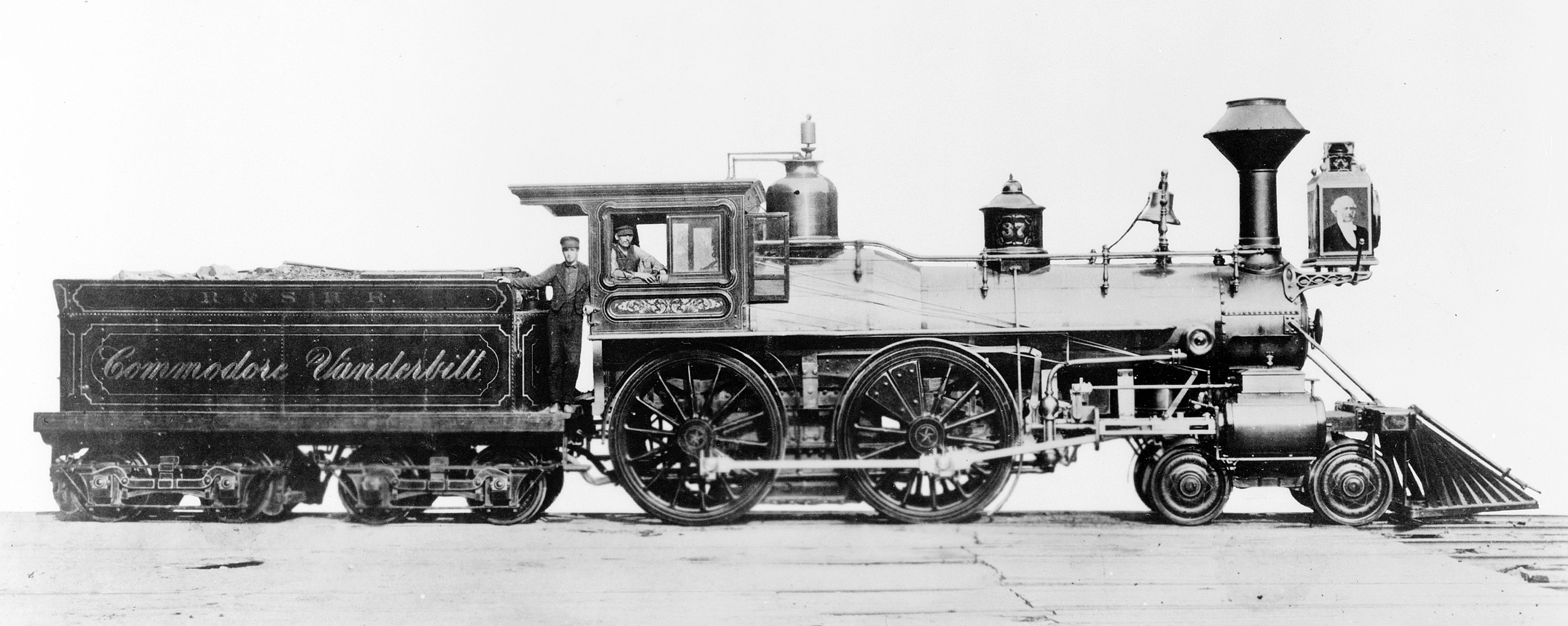 "Commodore Vanderbilt, built for the Hudson River Railway, now part of the New York Central System, by the American Locomotive Co. in 1870." This is a 4-4-0 "American" type locomotive.